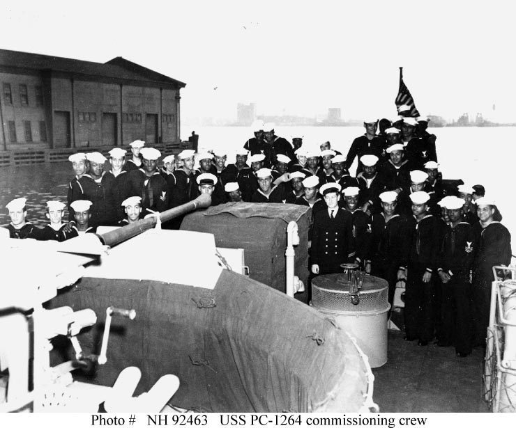 PC-1264 's enlisted complement on the fantail, at the time of her commissioning ceremonies, 25 April 1944, at New York City. There are three white Petty Officers, only ones assigned at that time, in the front ranks (two on left - head and shoulders only, one slightly right of middle). The white Petty Officer on the far left is BM1c Donald Briggs from New Jersey. Also note barrel of 40mm single gun mount in left foreground.